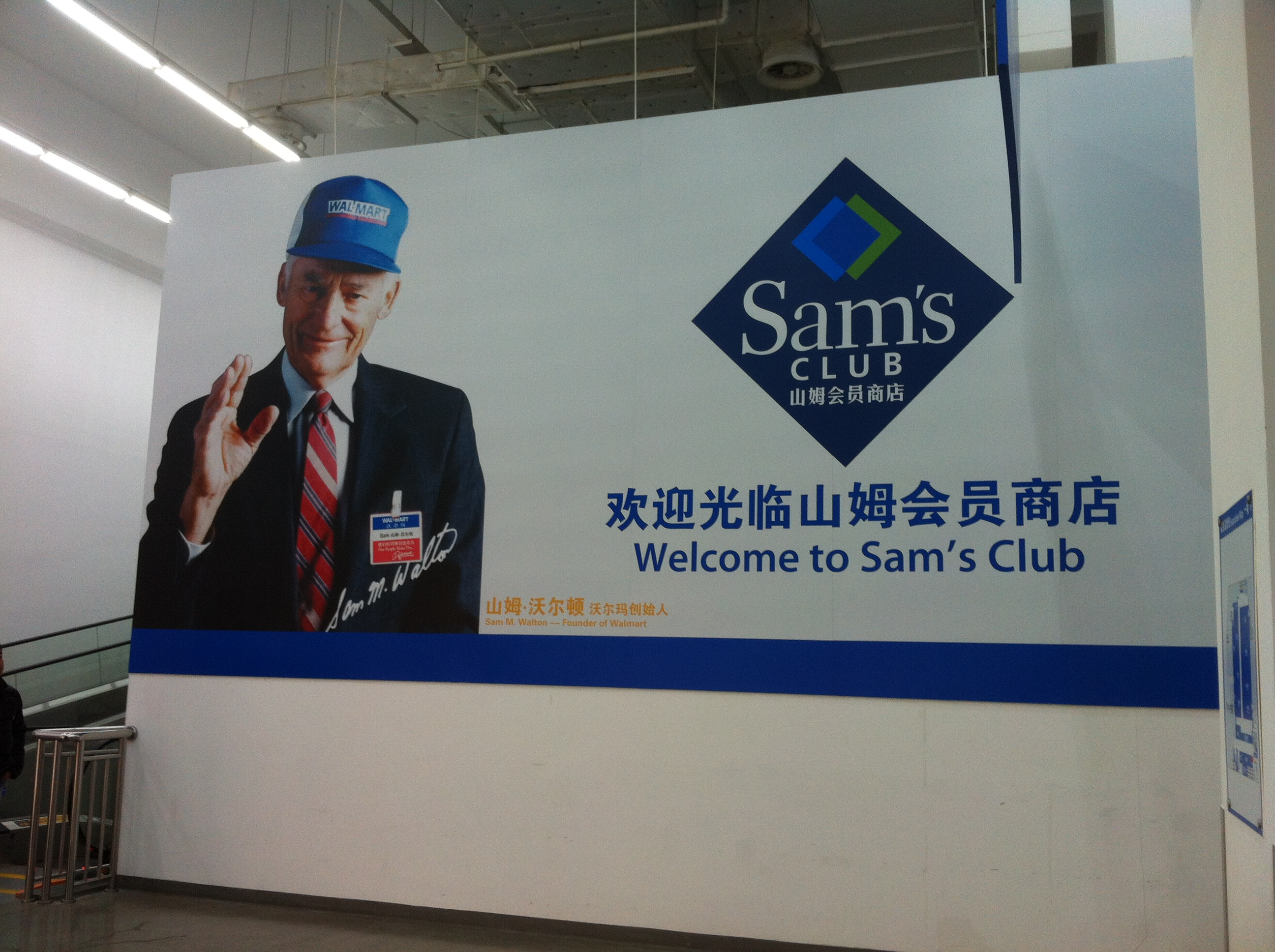 Sam's Club in Suzhou中文（中国大陆）: 山姆会员商店（苏州店）的景象